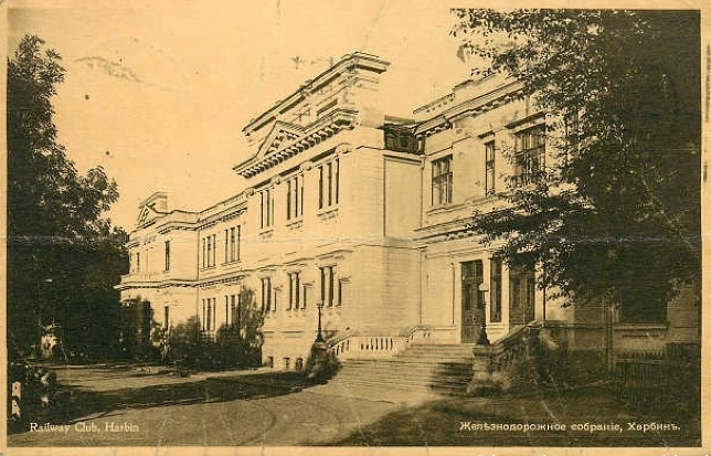 Railway Club, Harbin. Originally built by the Russians.